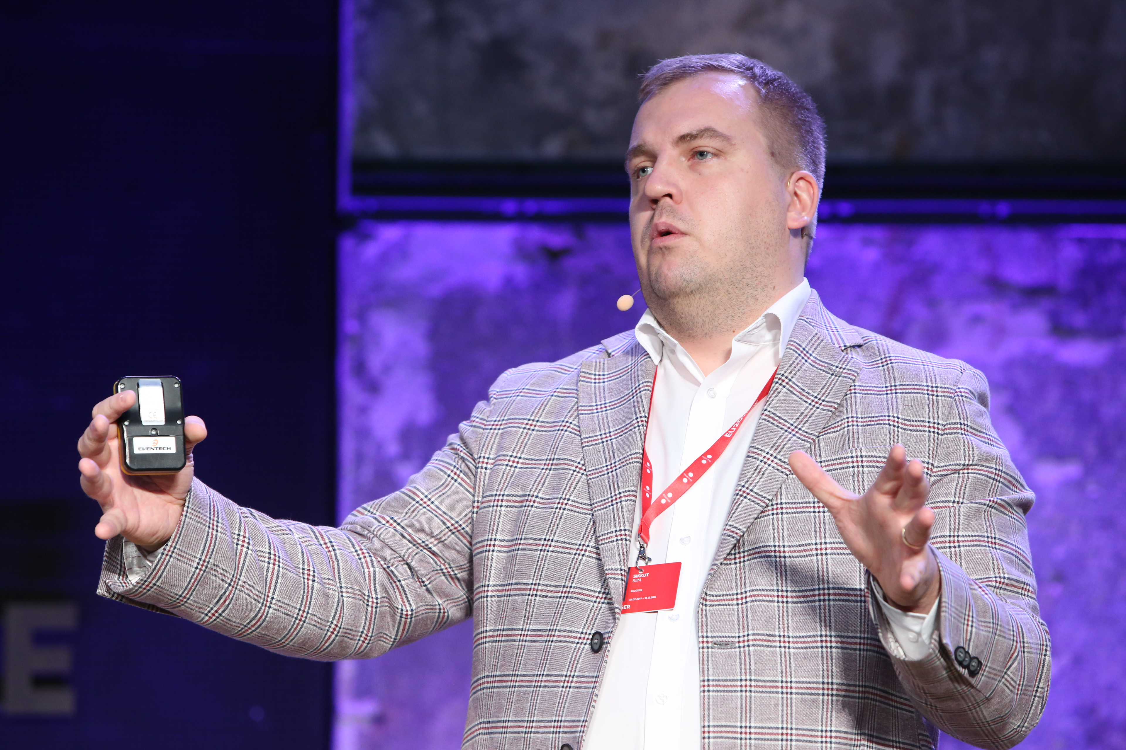 Siim Sikkut, Government CIO of Estonia Photo: Annika Haas (EU2017EE)